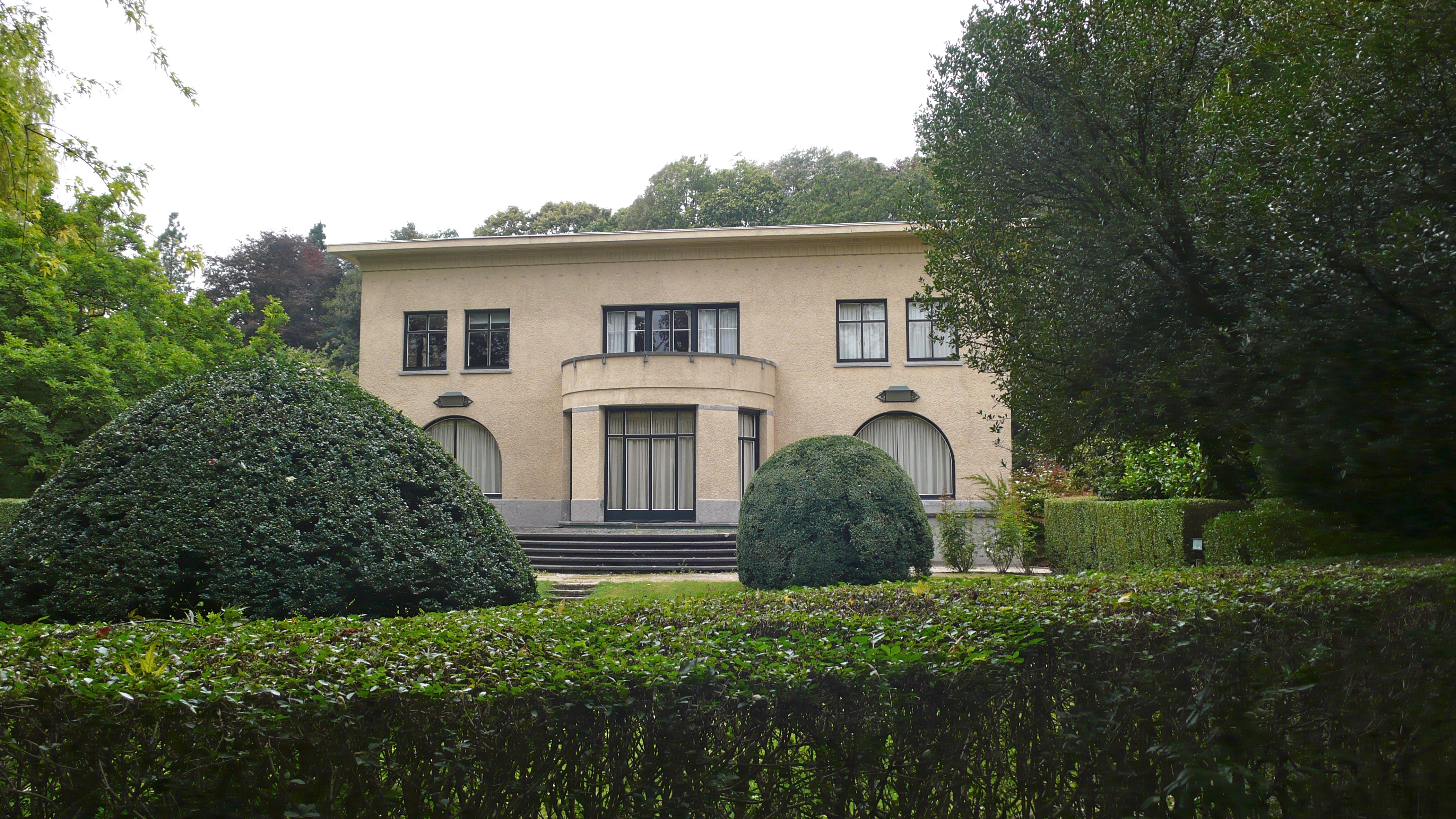 Villa Gosset, built in 1928-1929 by the architect Adrien Blomme. Style : Art deco. Address: avenue de l'Horizon 21-23, 1150 Woluwe-Saint-Pierre (Brussels).